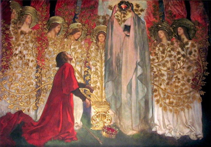 no title